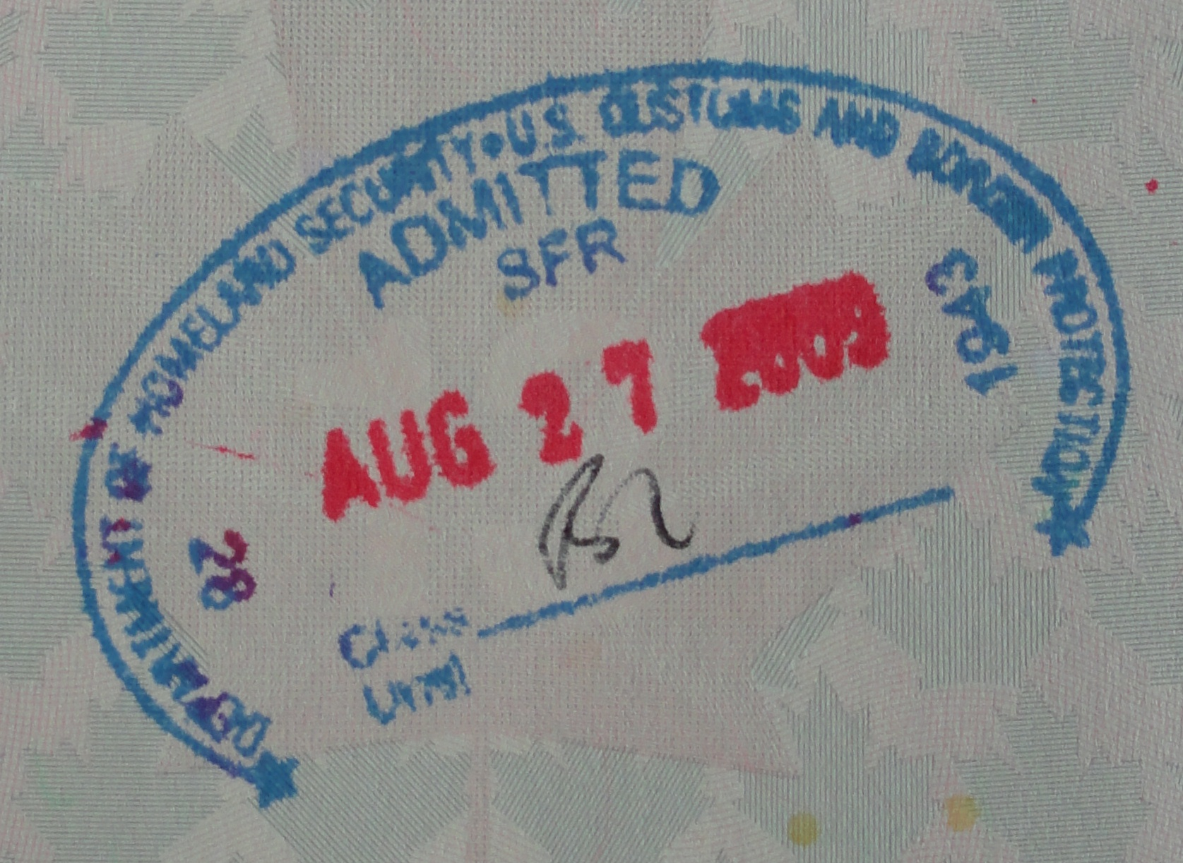 USA Passport Stamp